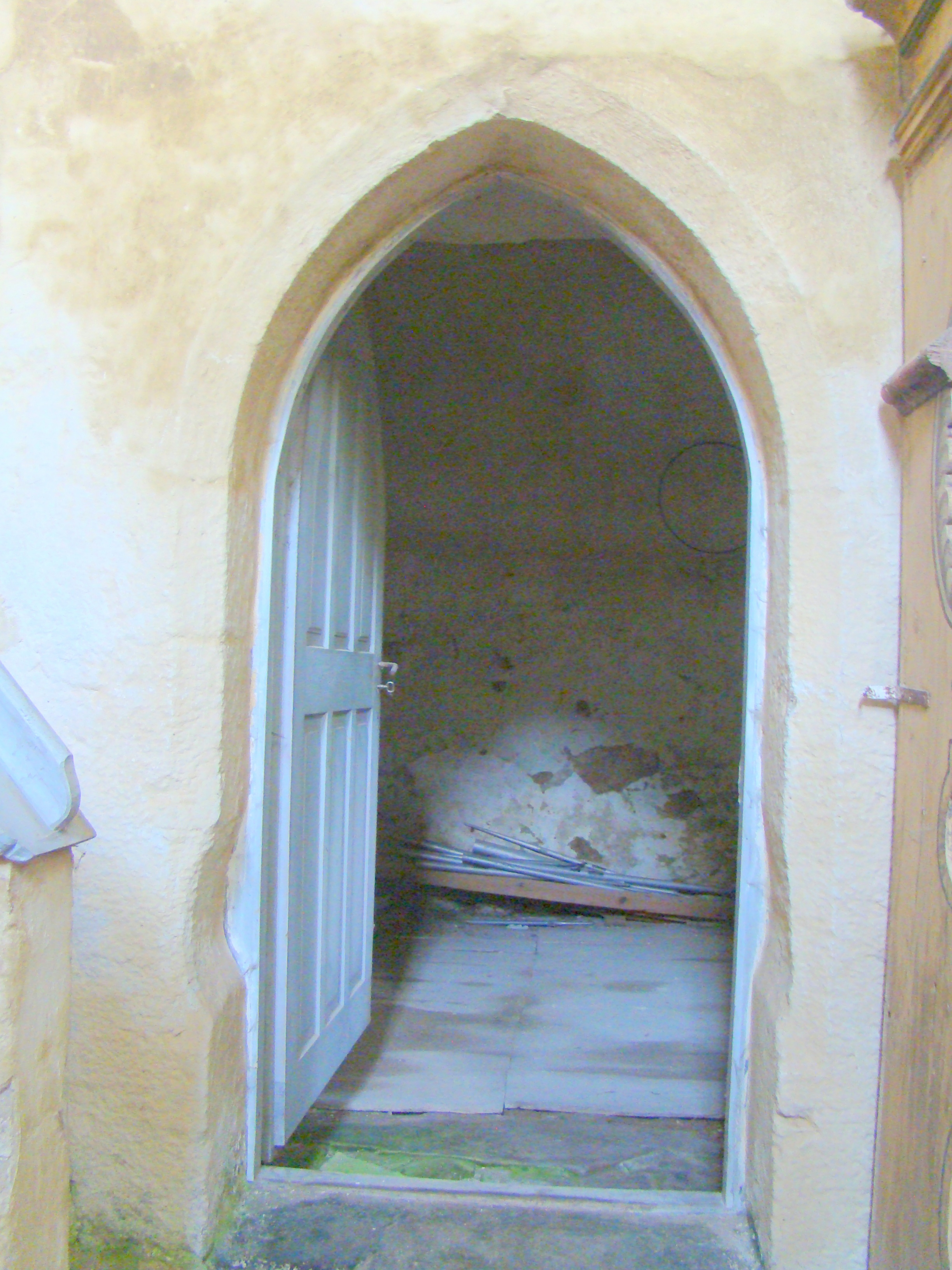 Lutheran church in Beia, Braşov county, Romania